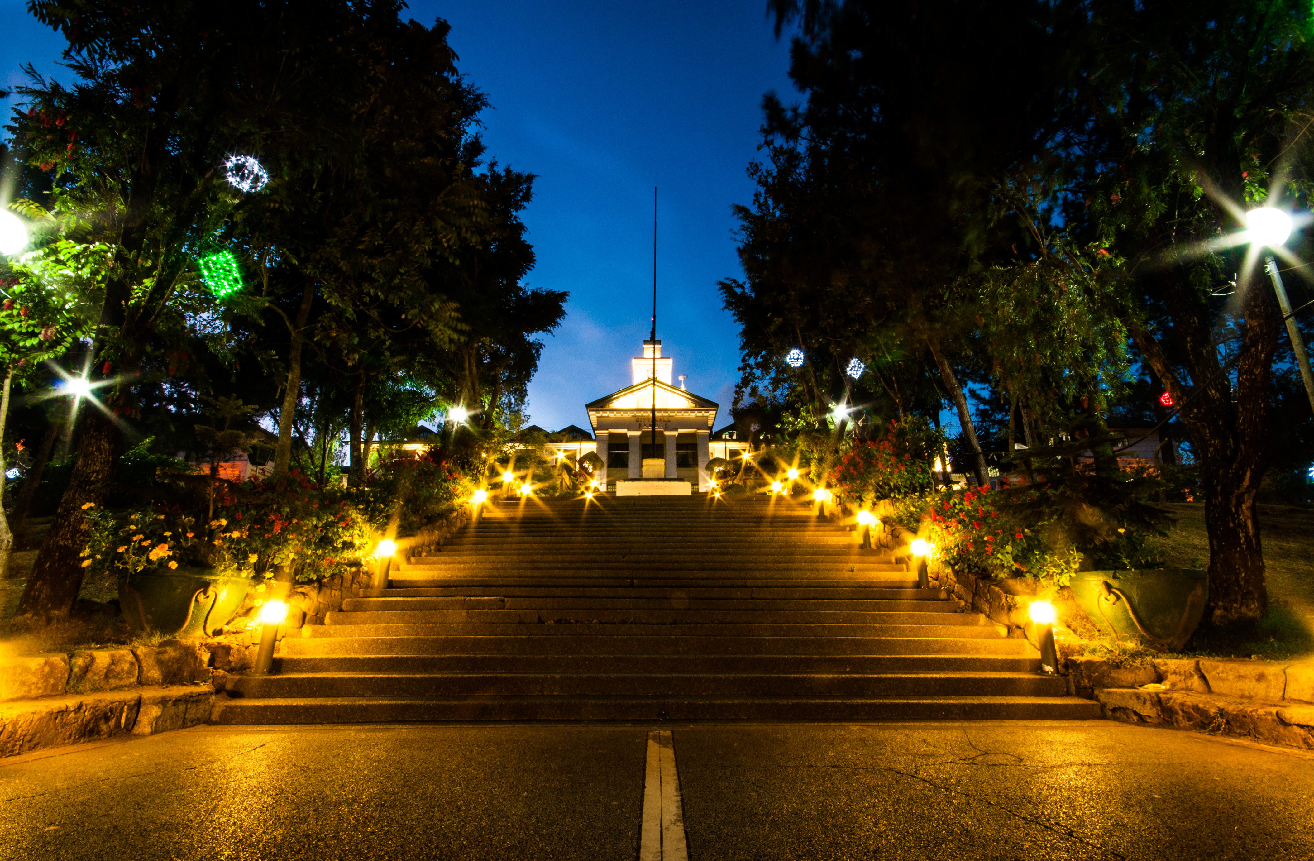 A stairways going up to the City Hall of Baguio City.